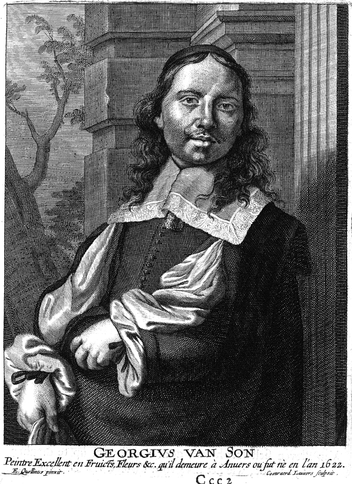 Het Gulden Cabinet, painter biographies by Cornelis de Bie for the Antwerp publisher-engraver Jan Meyssens, 1662 Joris van Son p 403